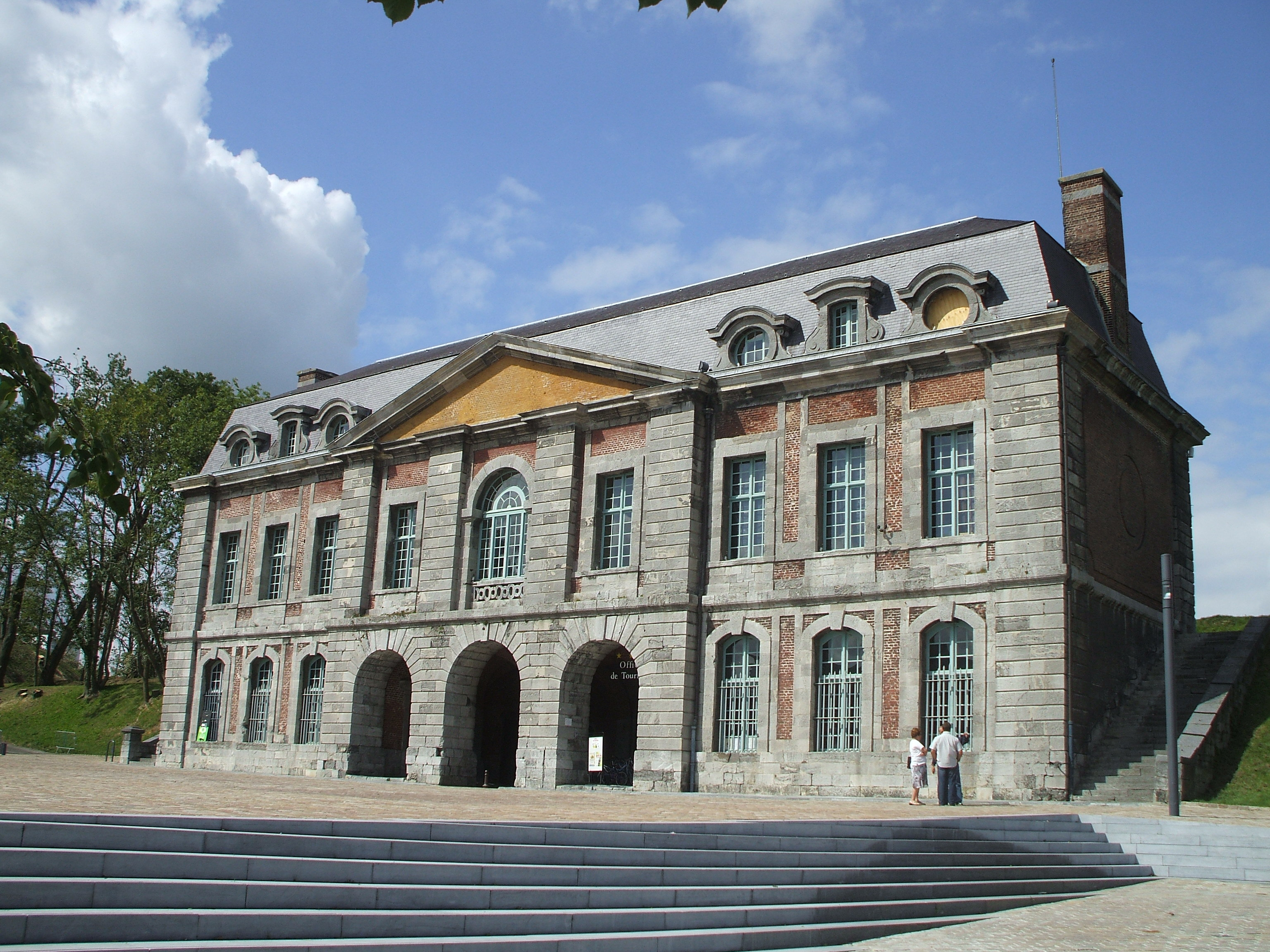 Mons's gate to Maubeuge in department Nord in France. Built under Louis XIV of France by Sébastien Le Prestre de Vauban in 1682 to shelter a guardroom, housing and cells. The door is the last one of three doors of the surrounding wall of the city. Indeed the Door of France was destroyed in 1958 the door of Bavay is destroyed in 1952. it is built brick-built, blue stone and stoneware and possesses a drawbridge. it is classified as "Historic Monument" since 1924. It is the Tourist Information Office.